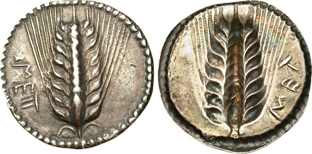 Nomos du royaume de Lucanie frappé à Métaponte Date : c. 530-510 AC.